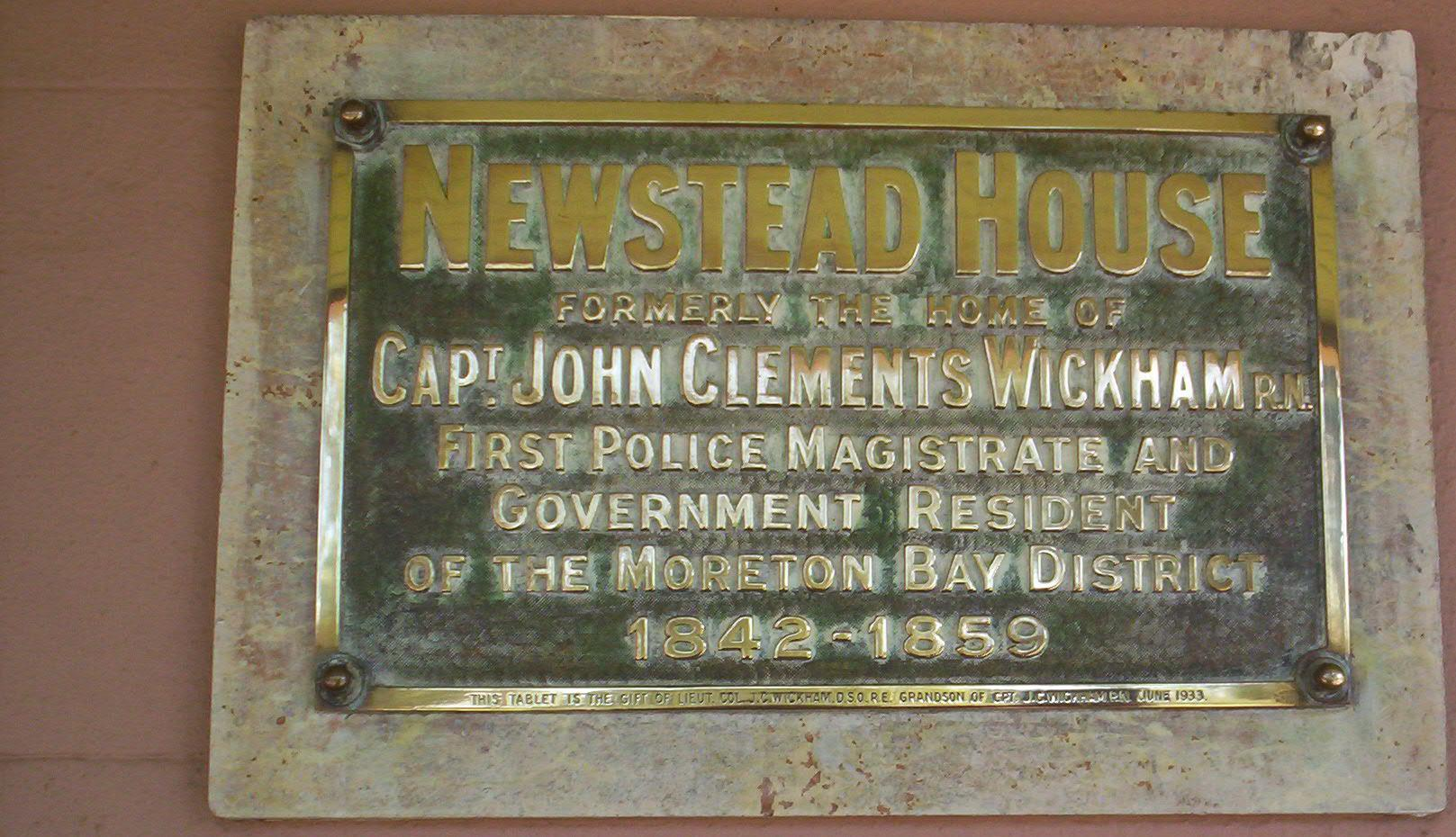 Captain Wickham plaque at Newstead House in Brisbane, Queensland, Australia